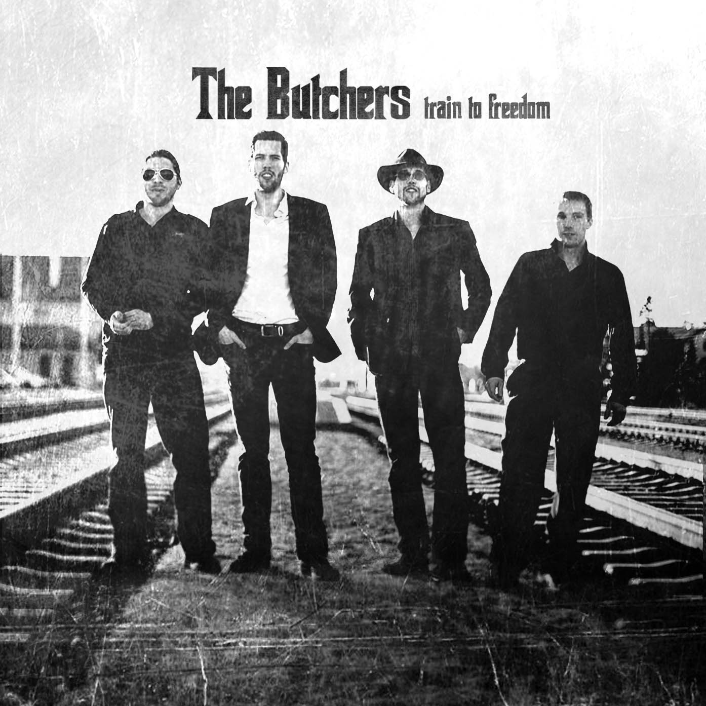 Photo made for the Train to freedom album in 2013. Tomi Bartha, András Hushegyi, János Hushegyi and Zoltán Petrakovič